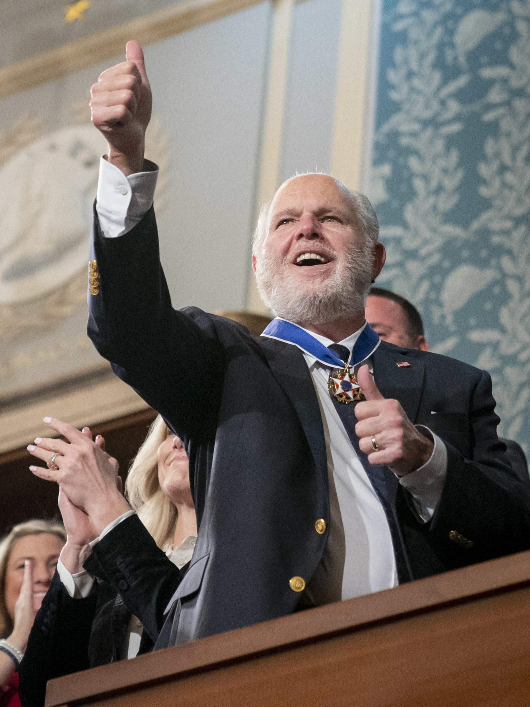 Rush Limbaugh gives a thumbs-up to President Donald J. Trump from the House Gallery Tuesday evening, Feb. 4, 2020, after President Trump awarded Limbaugh with the Medal of Freedom during the State of the Union address at the U.S. Capitol in Washington, D.C. (Official White House Photo by D. Myles Cullen)